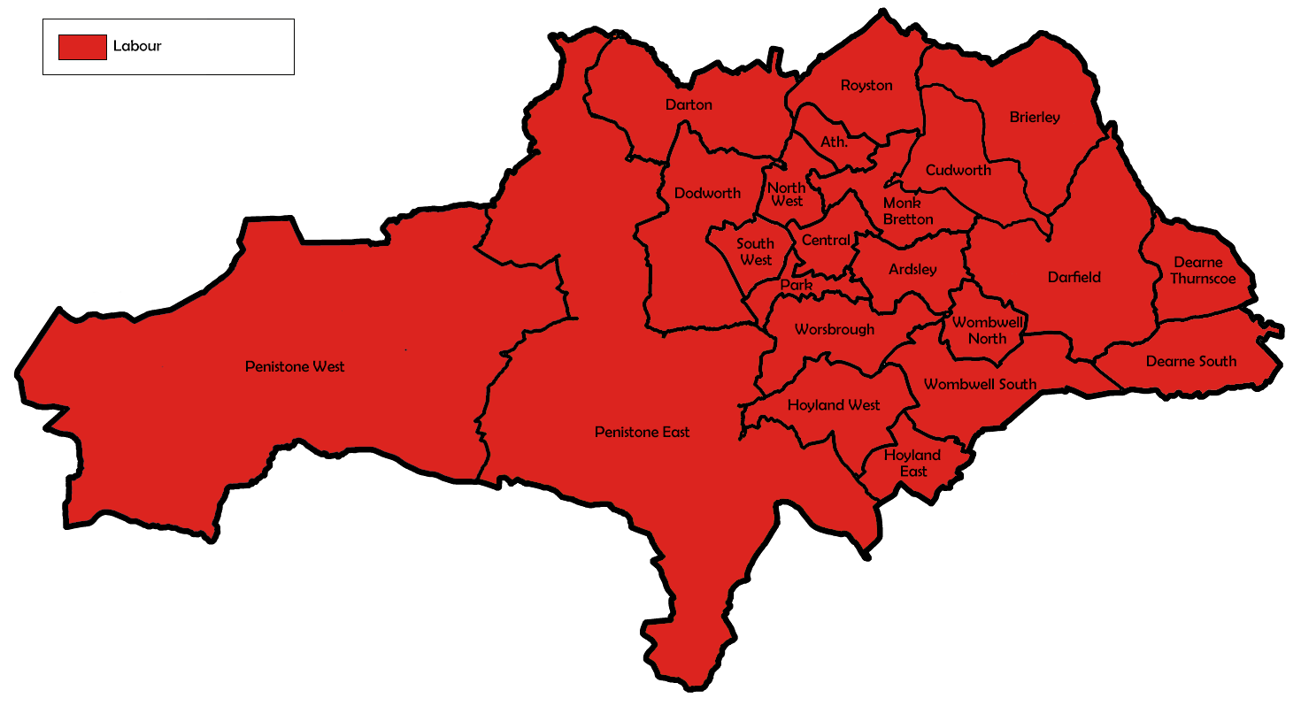 Ward map of Barnsley council with political colouring for the 1986 election.